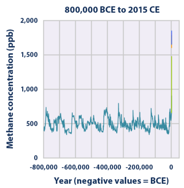 This figure shows concentrations of methane in the atmosphere from hundreds of thousands of years ago through 2008. The data come from a variety of historical studies and monitoring sites around the world